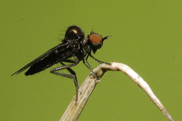 Picture taken in Commanster, Belgian High Ardennes . Species: Bicellaria spuria